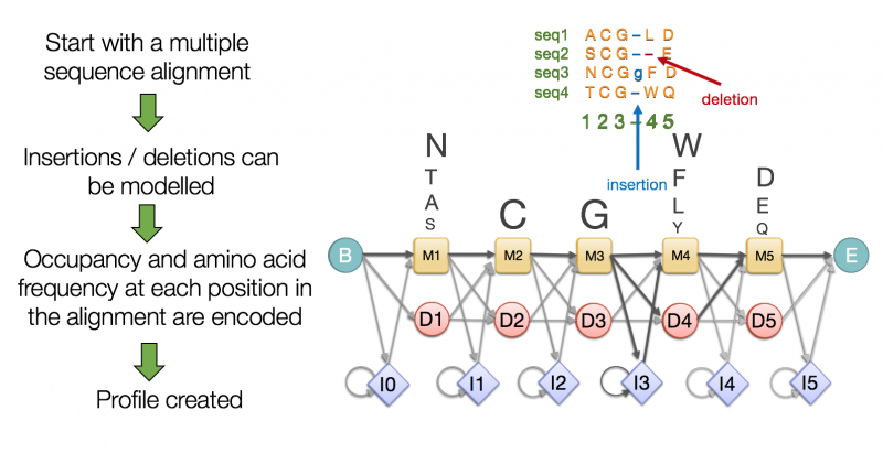 The boxes in yellow are the match states (M). In the M state the probability distribution is the frequency of the amino acids in that position. The row of diamond shaped states are insert states (I) which are used to model highly variable regions in the alignment. The circular states are delete states (D). These are called silent states since they do not match any residues, and they are there merely to make it possible to jump over one or more columns in the alignment.The final probabilistic model conveys the estimation of the observed frequencies of the amino acids in each position, as well as the transitions between the amino acids derived from the observed occupancy of each position in a multiple sequence alignment.[1]